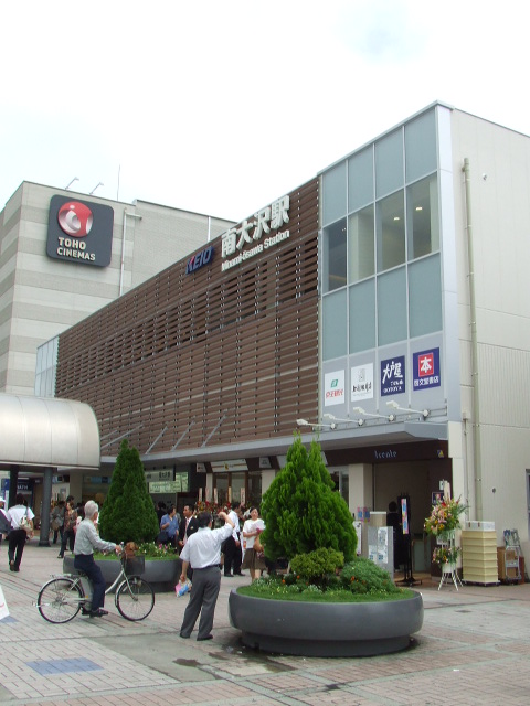 Minami-Osawa Station on the Keio Sagamihara Line